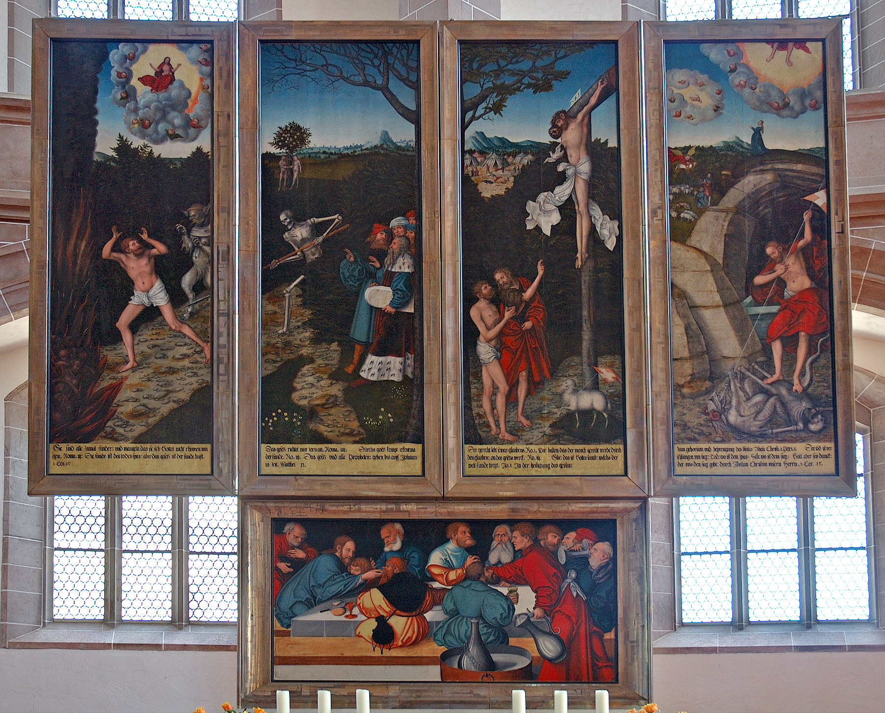 This image shows the front side of the altar piece in the church "St. Wolfgangskirche" in Schneeberg (Saxony, Germany).